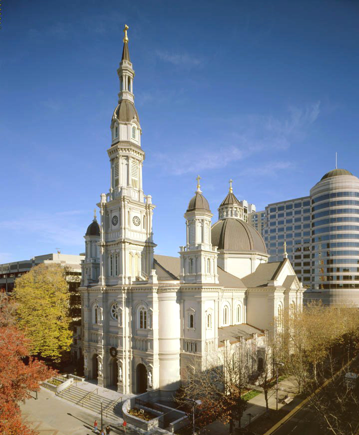 ©Matthew Hendricks (image self-created and owned; released under Creative Commons license)